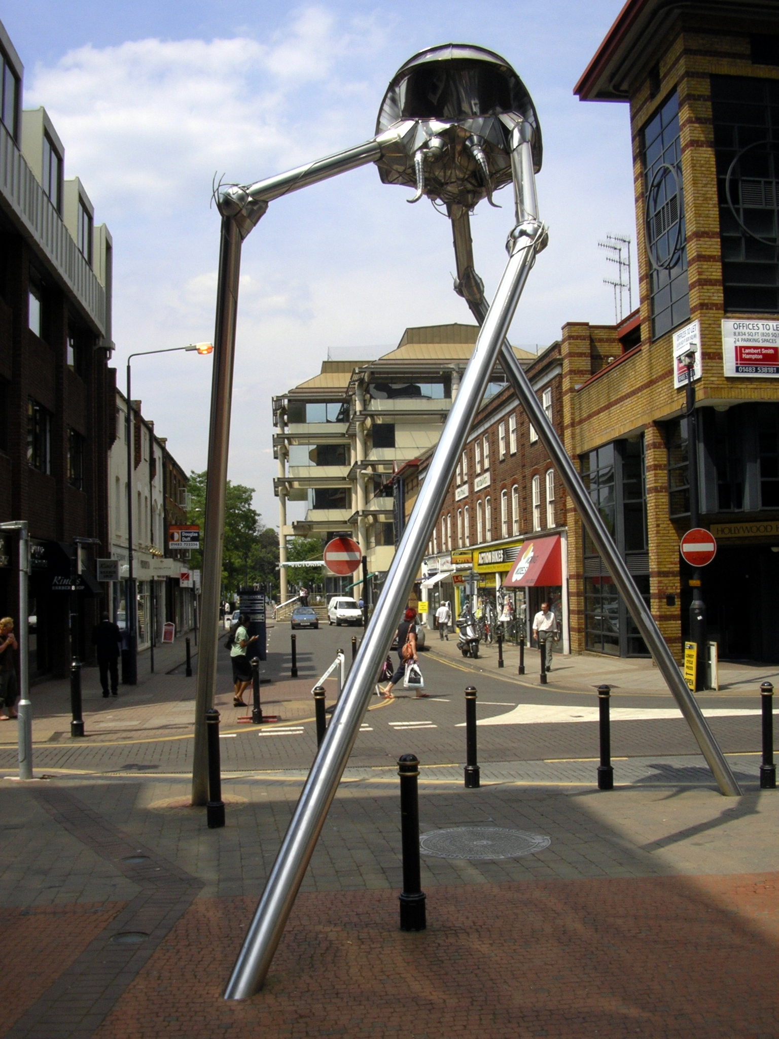 A sculpture (by Michael Condron) of a Martian tripod from H. G. Wells' War of the Worlds, in Woking, Surrey.